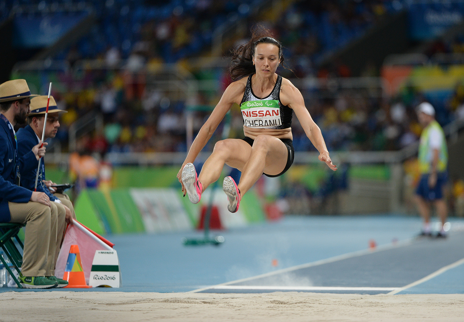 Elena Chebanu. Athletics at the 2016 Summer Paralympics – Women's long jump